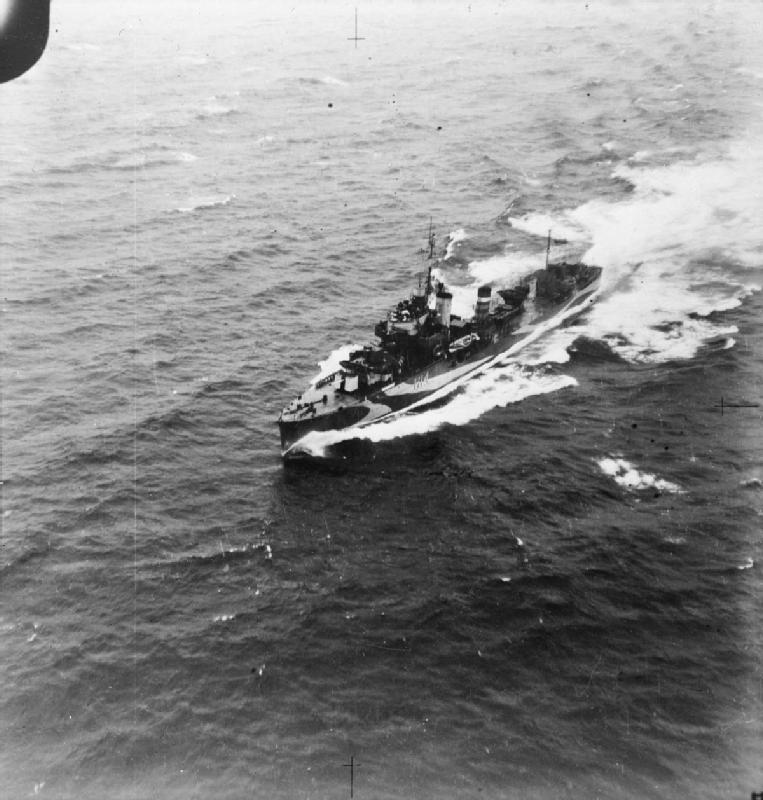 Aerial view of British destroyer HMS ACTIVE underway in the Gibraltar Straits.